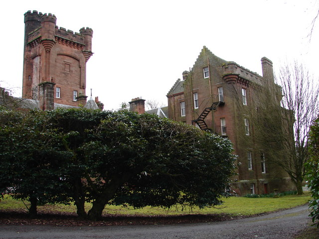 Newlands House Tower. Rear of Newlands House, showing the castellated lookout tower. Main house (frontage): 764794